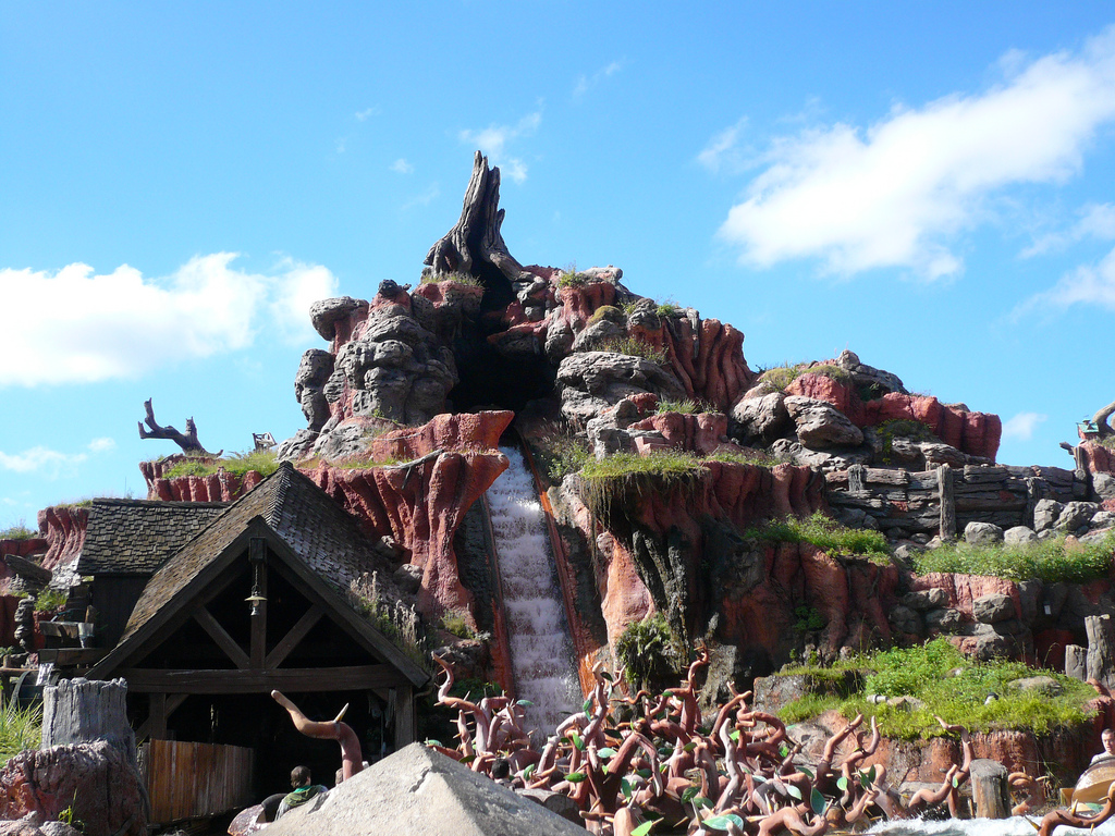 Splash Mountain Magic Kingdom Walt Disney World December 2008